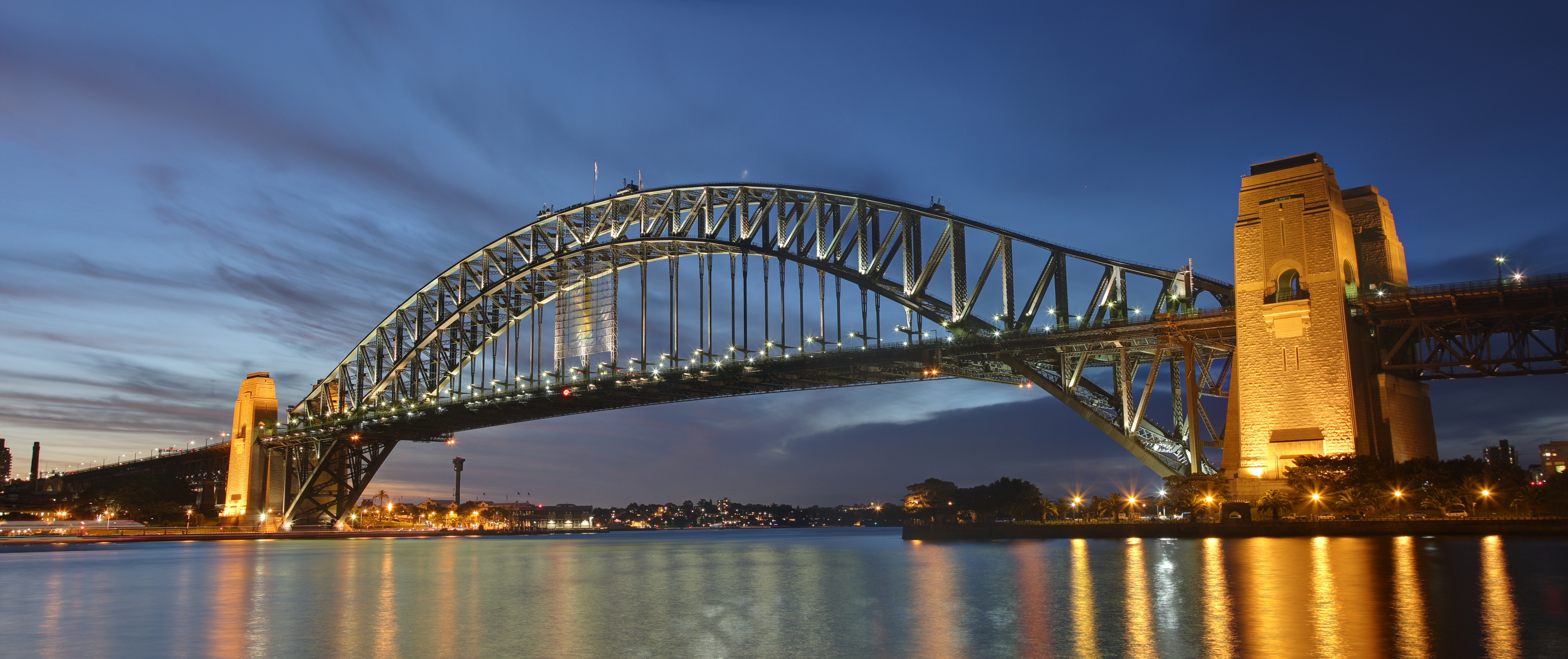 Sydney Harbour Bridge at dusk